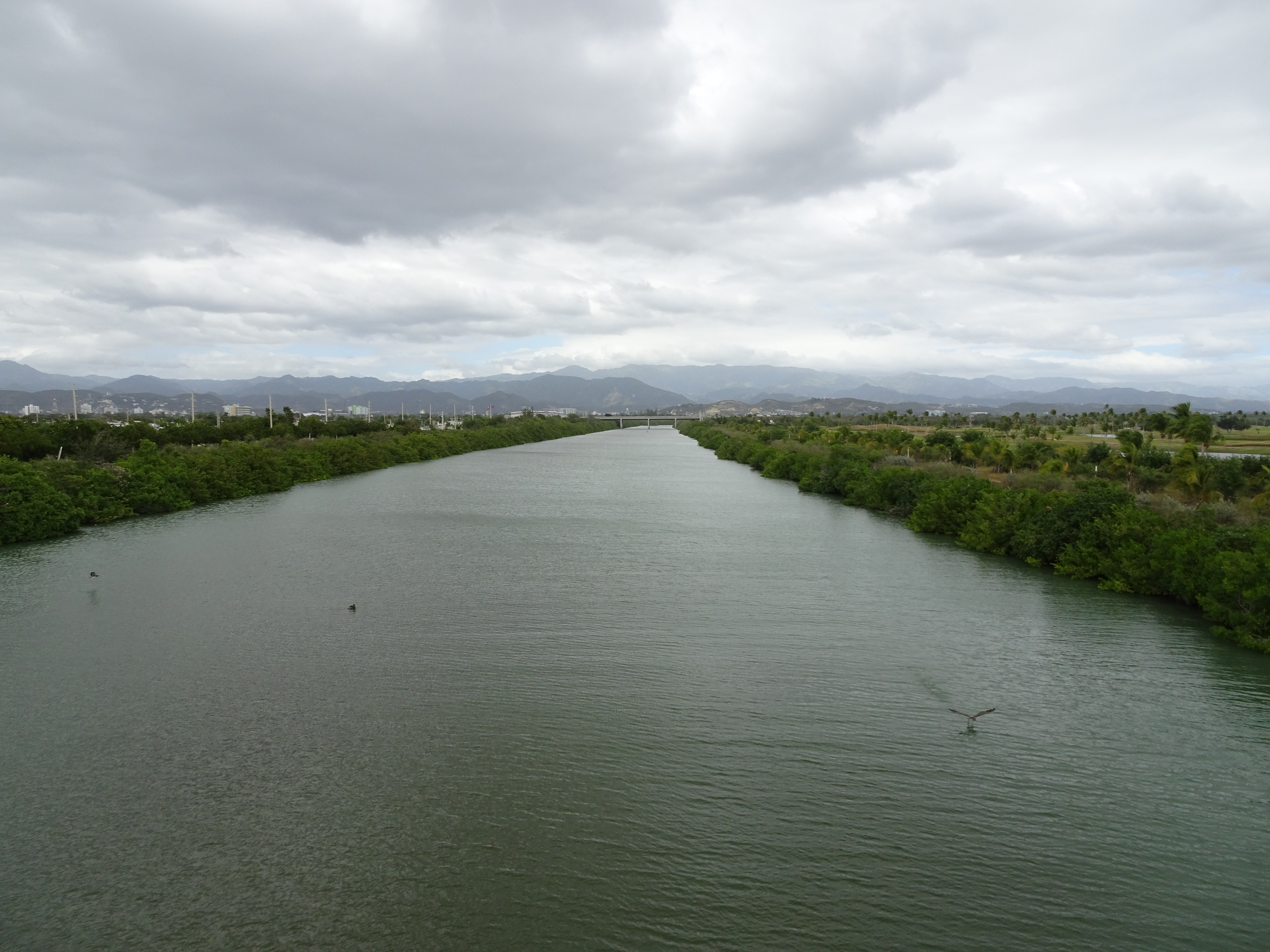 Río Bucaná, mirando al norte, desde el Puente de la Avenida Caribe, Bo. Playa, Ponce, PR (DSC01271)